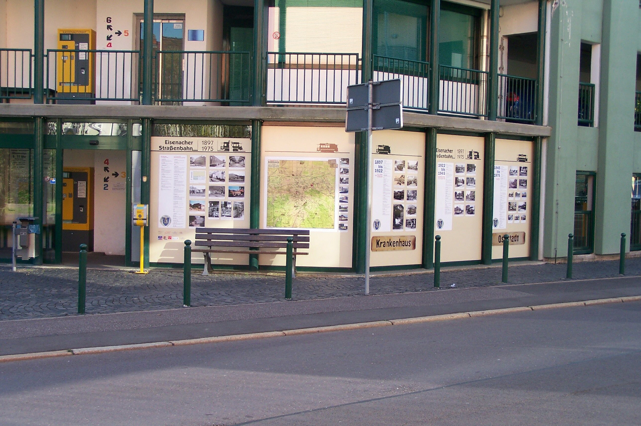 At the old Tram-Station in the Sommerstr.